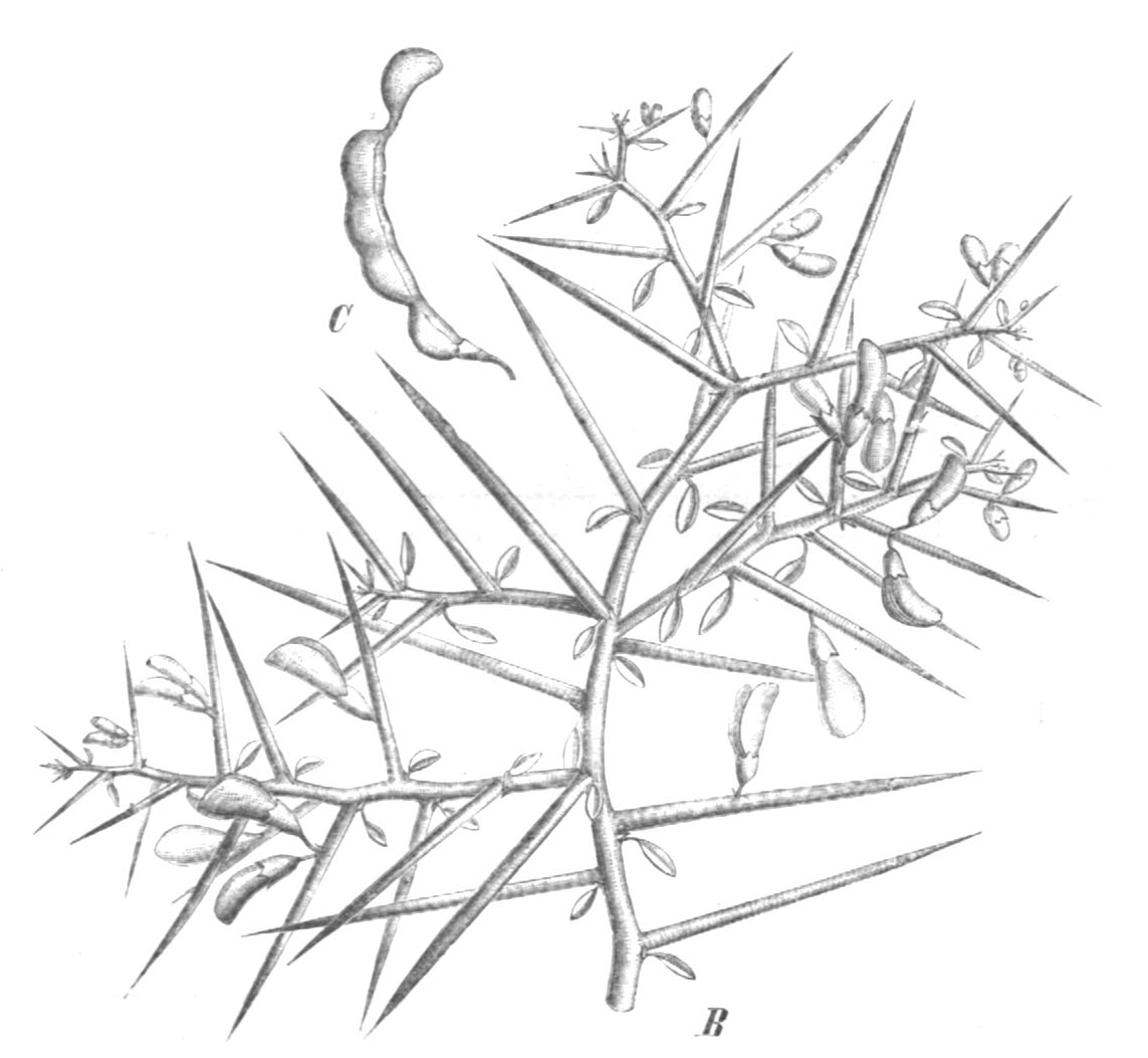 Illustration from book Alhagi maurorum